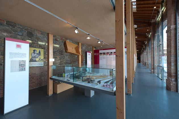 Museum of Parma's Ham - Langhirano (PR) - Italy